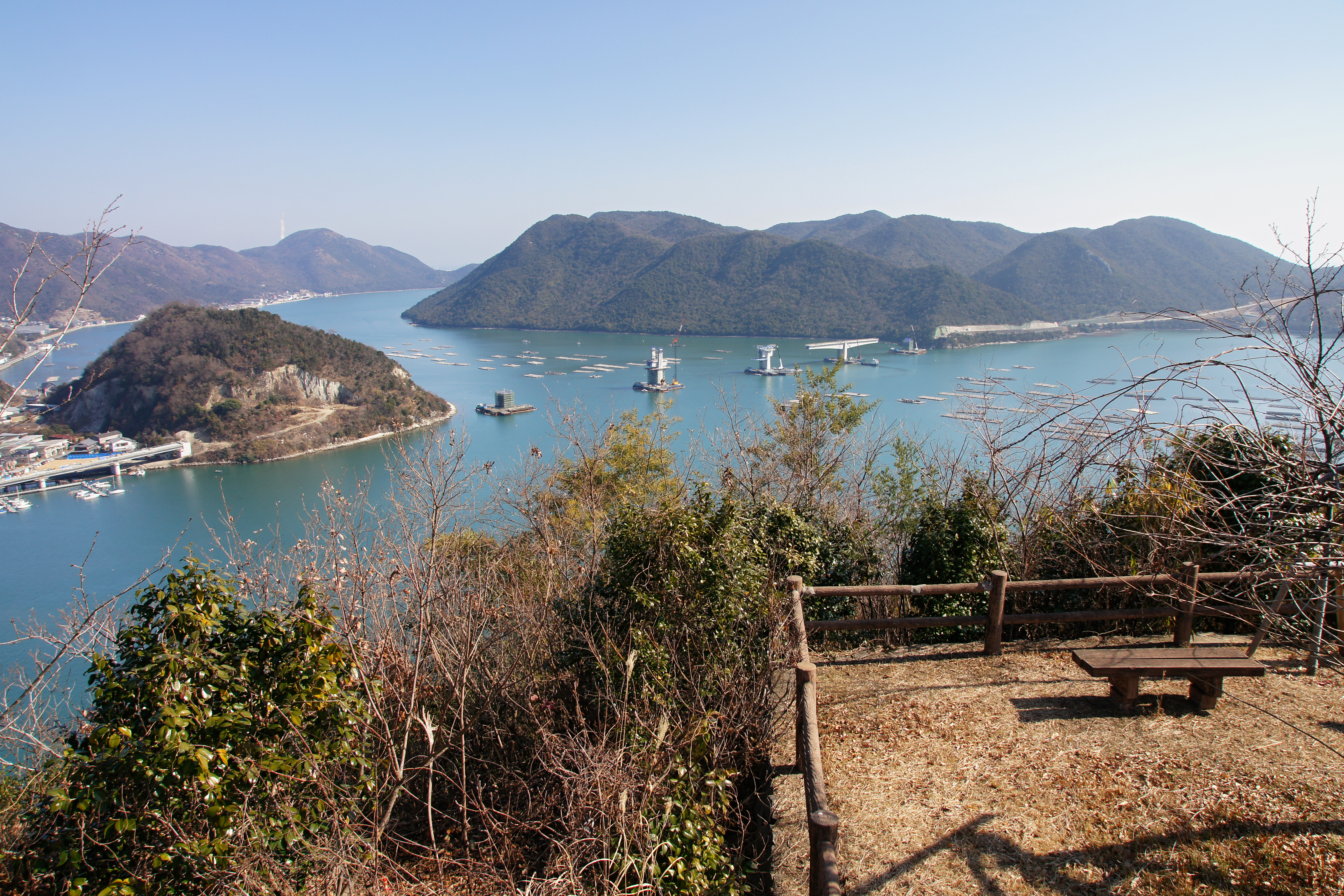 A view from Harbor View Park in Hinase, Bizen, Okayama prefecture, Japan